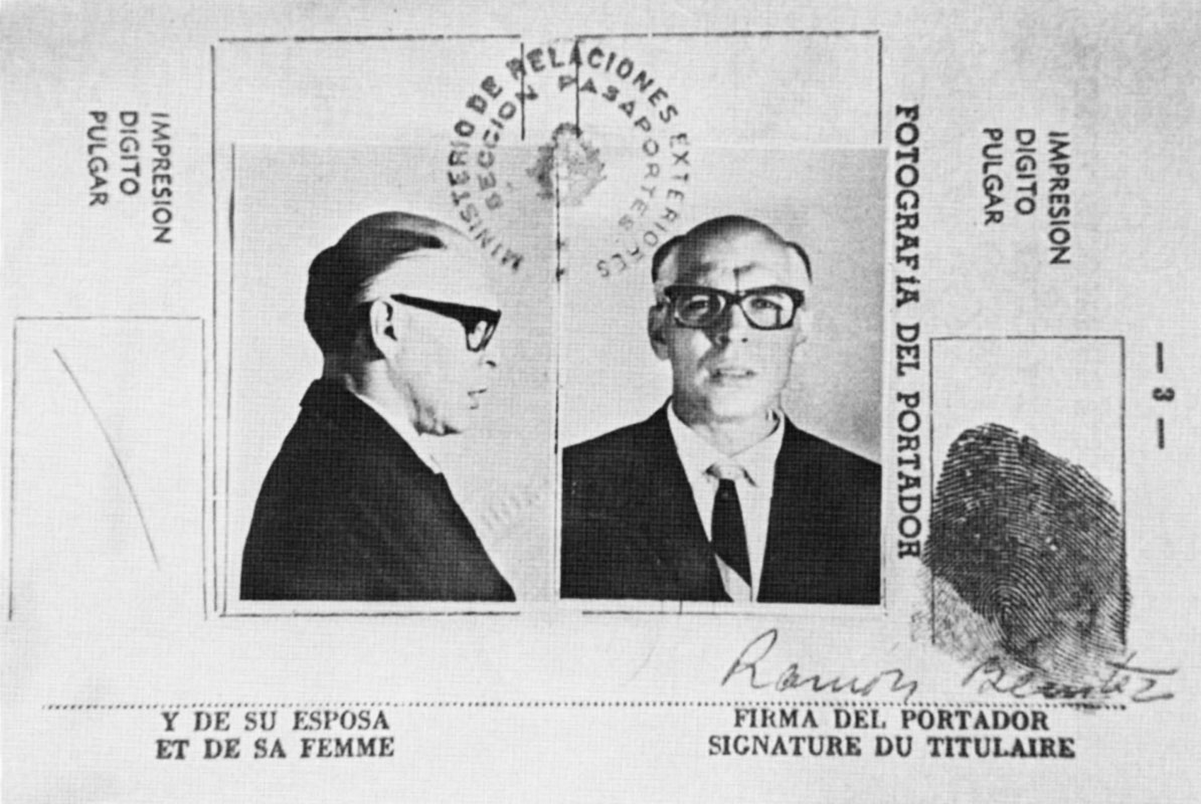 “Adolfo Mena González.”passport